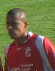 Thiago Rockenbach. Player of Rot-Weiß Erfurt. The picture was taken during the match SV Sandhausen vs. Rot-Weiß Erfurt.